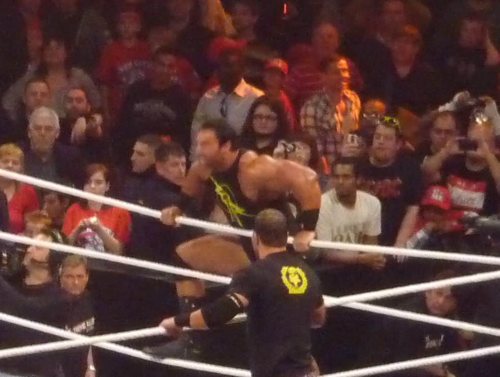 Mason Ryan as a member of the New Nexus on April 18, 2011.